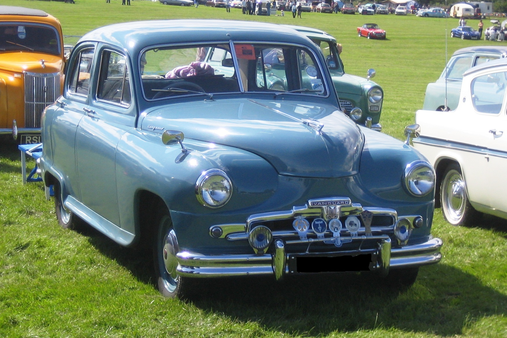 Standard Vanguard Phase II in a field for a Classic Car Show in Hertfordshire